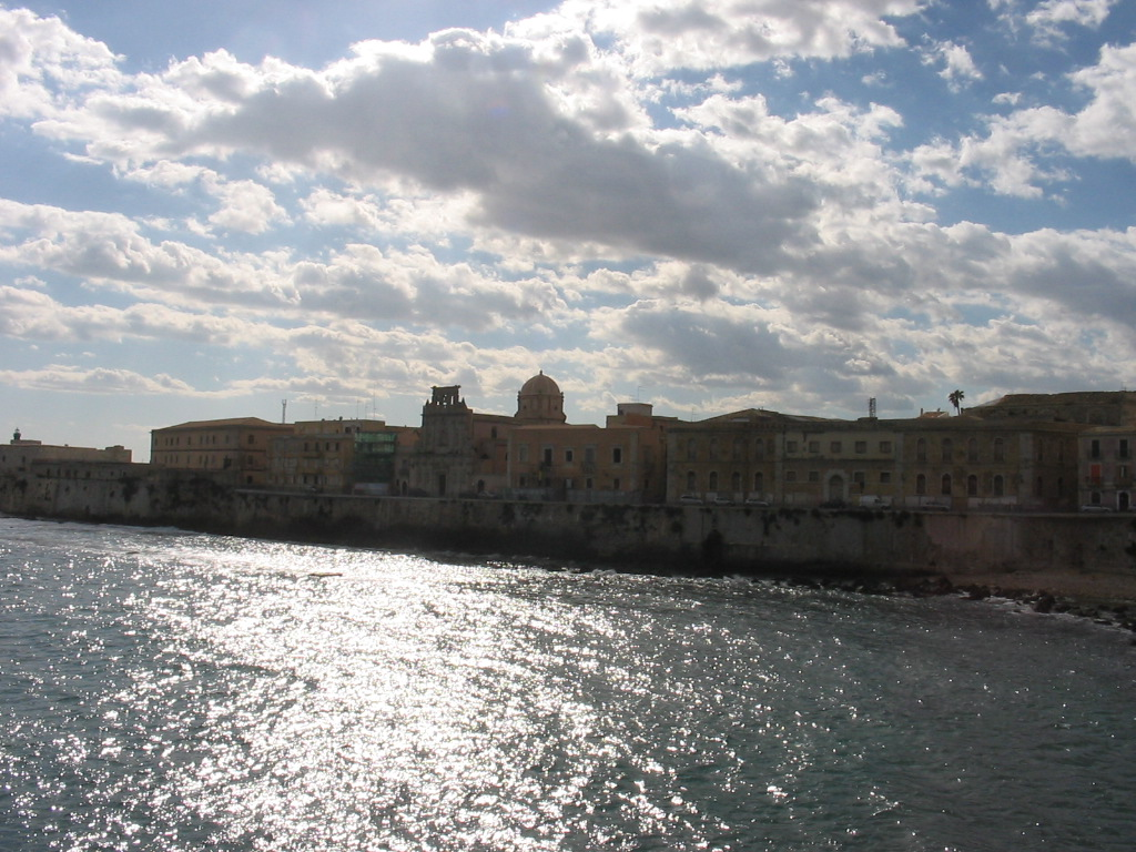 Ortygia, Syracuse in late afternoon